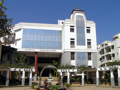 the building of SHS